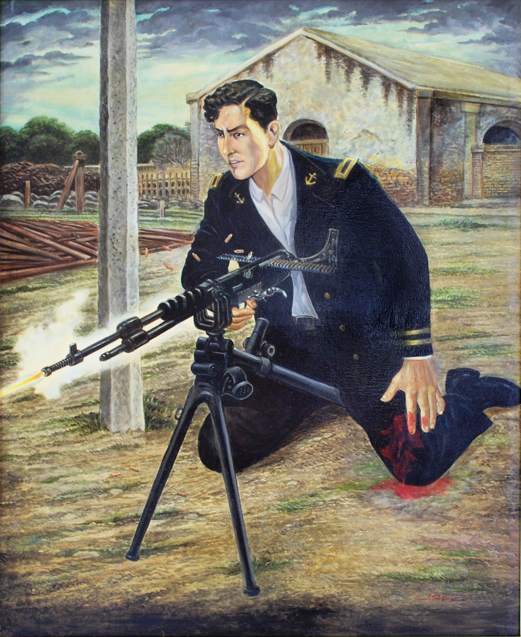 Painting by unknown author. Label below says "Lieutenant José Azueta, hero of the defense of Veracruz" On display at the Naval History Museum in Mexico City